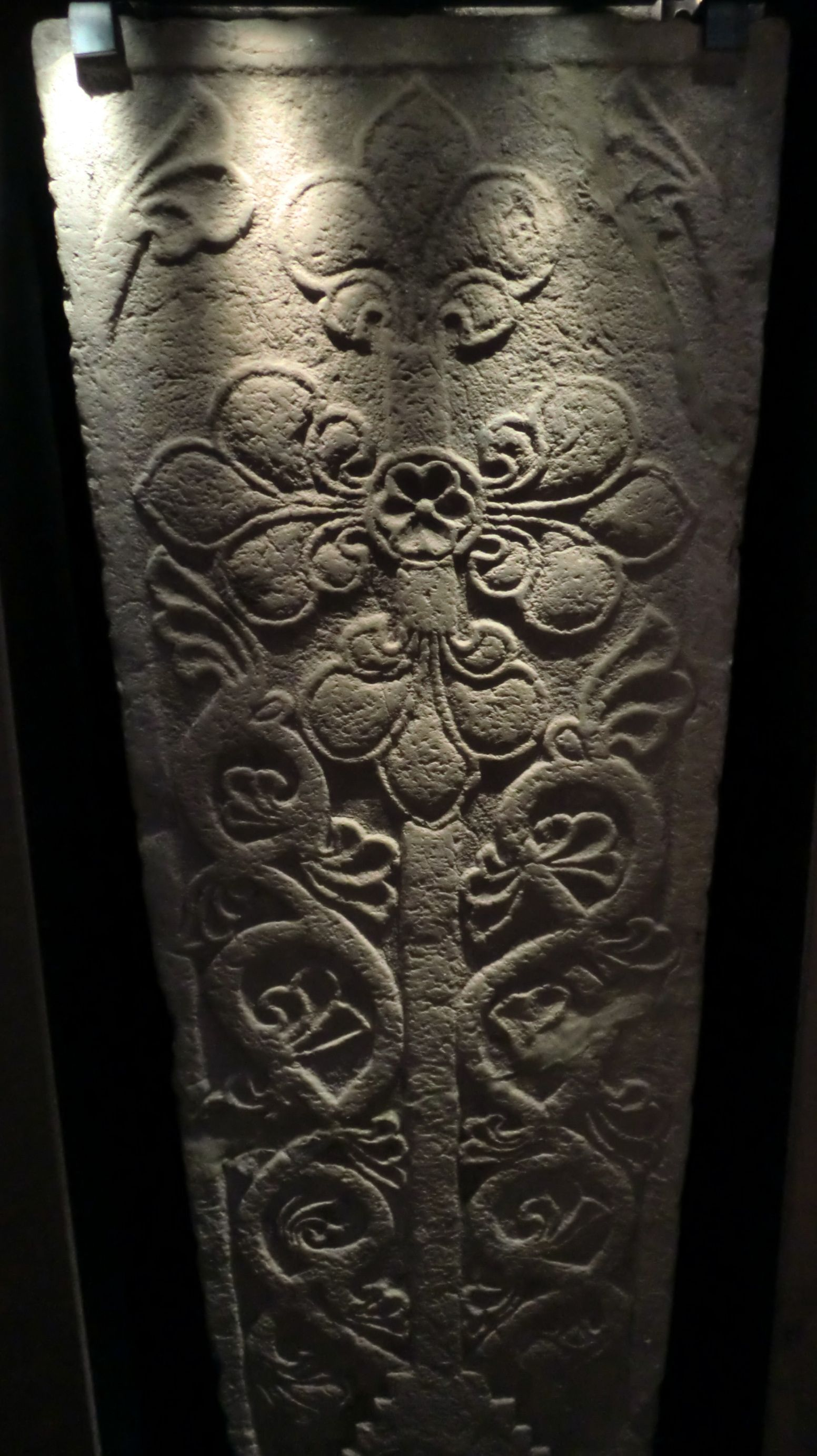 Tree of life slab from Edåsa parish church southeast of Skövde, Sweden, made in the 13th century. Stone now on display at Skaraborgs Länsmuseum, Skara.